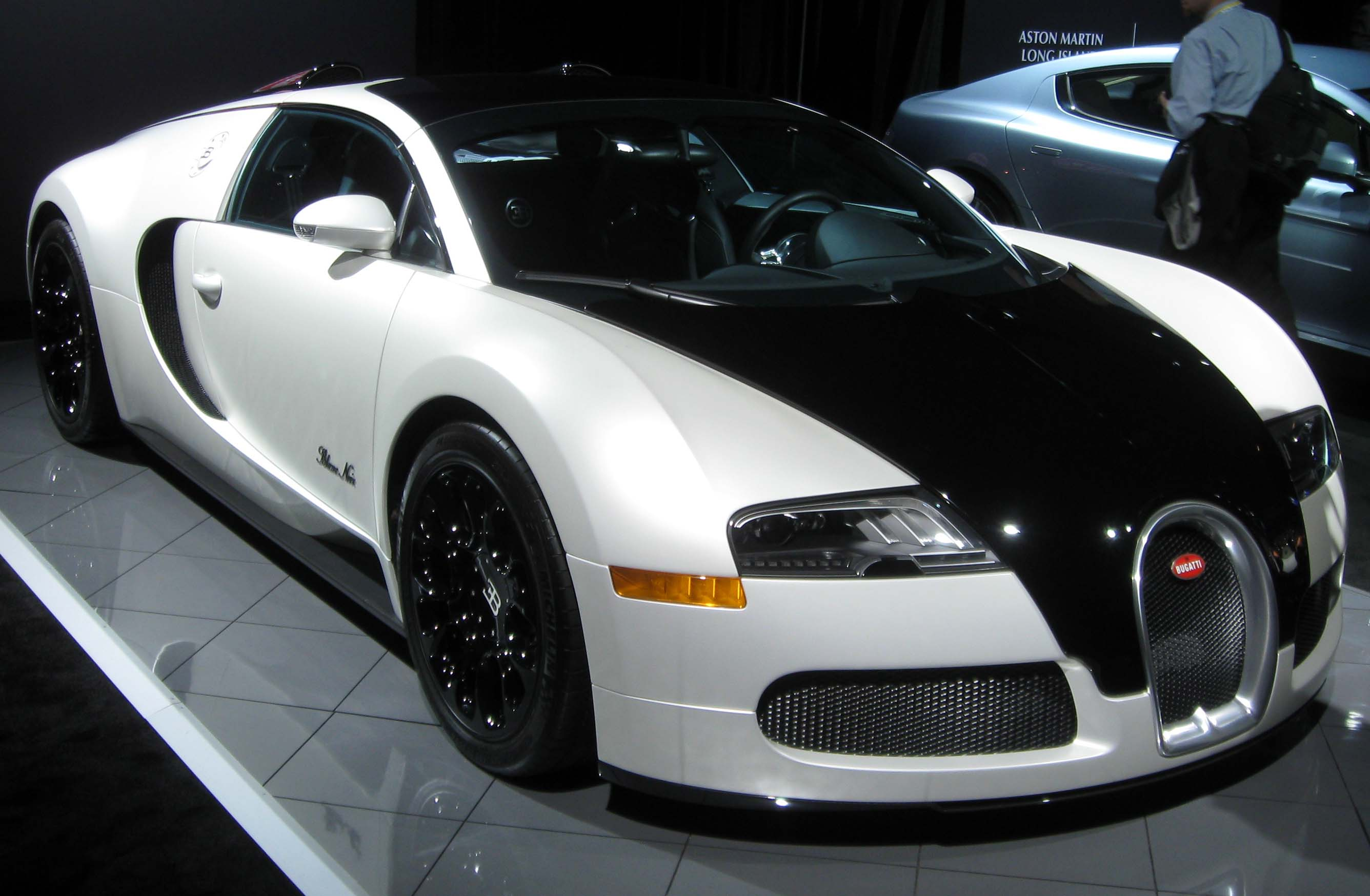 Bugatti Veyron Grand Sport Blanc Noir photographed at the 2012 New York International Auto Show.